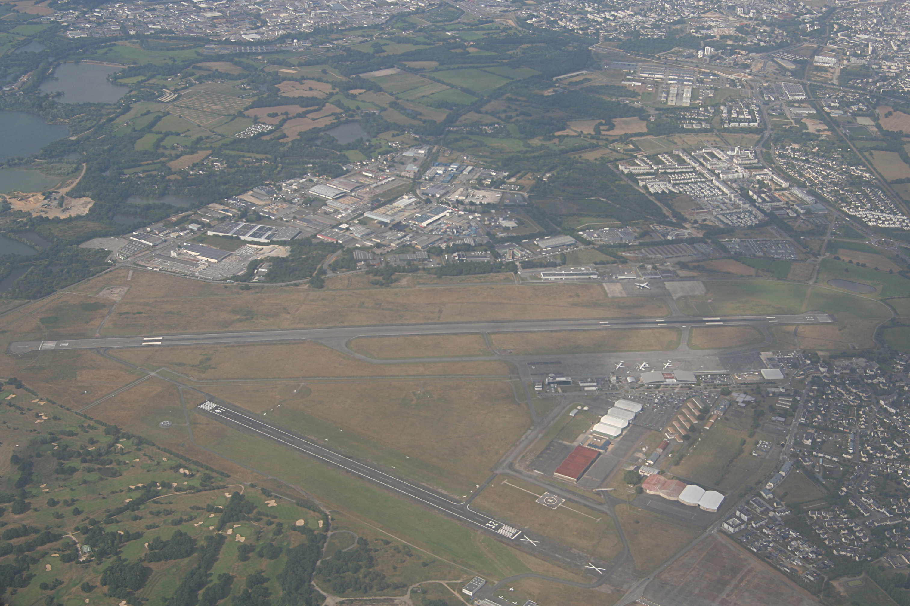 Rennes–Saint-Jacques Airport viewed from air.